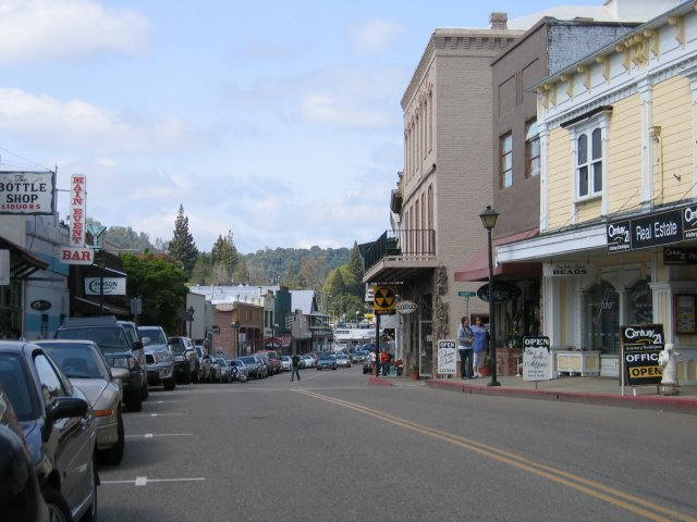 Historic Downtown, Jackson, CA